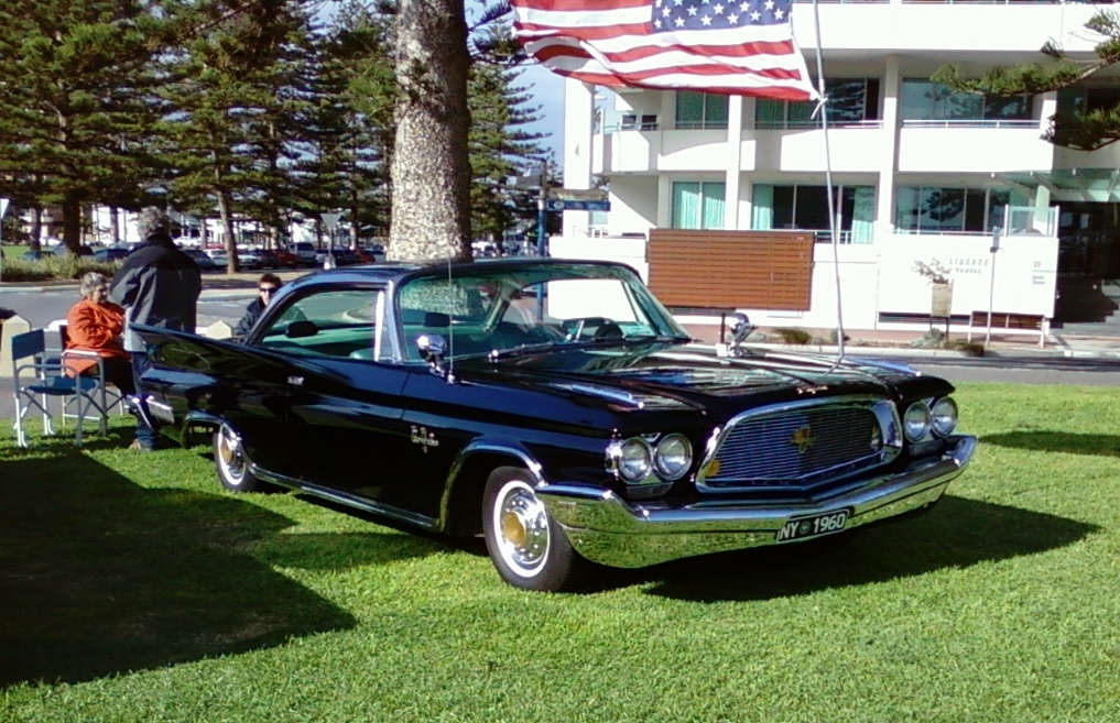 1960 Chrysler New Yorker 2 Door Hardtop Coupe